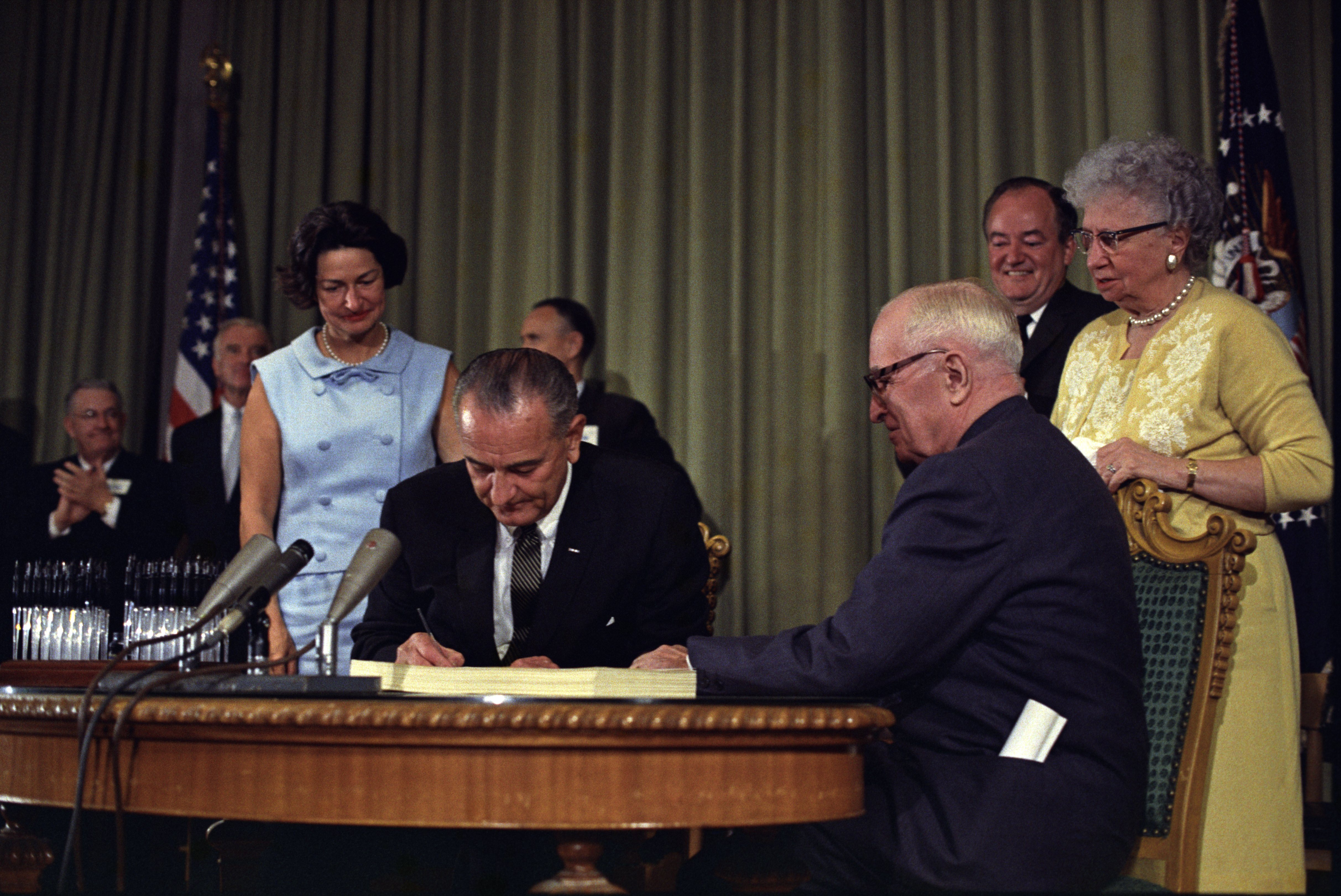 President Lyndon B. Johnson signing the Medicare Bill at the Harry S. Truman Library in Independence, Missouri. Former president Harry S. Truman is seated at the table with President Johnson. The following are in the background (from left to right): Senator Edward V. Long, an unidentified man, Lady Bird Johnson, Senator Mike Mansfield, Vice President Hubert Humphrey, and Bess Truman.